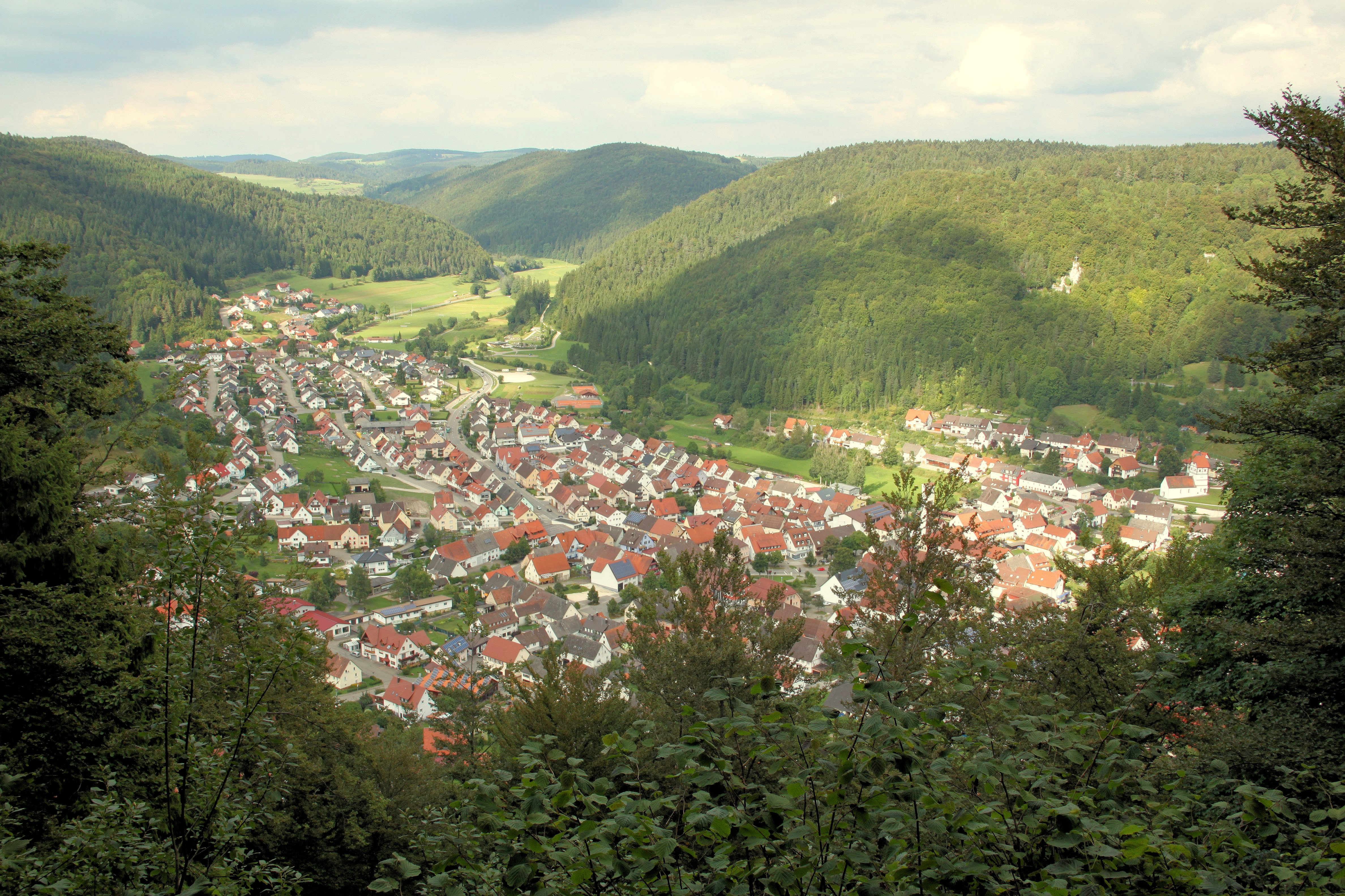 Nusplingen: Prospect from the Geological Trail